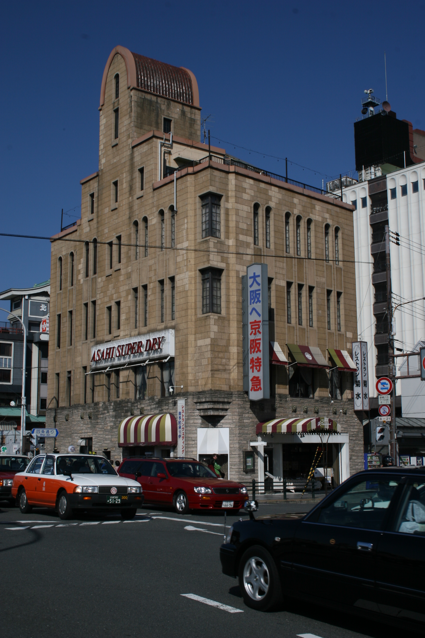 Kikusui Restaurant, Higashiyama-ku, Kyoto, Japan. Built in 1926.